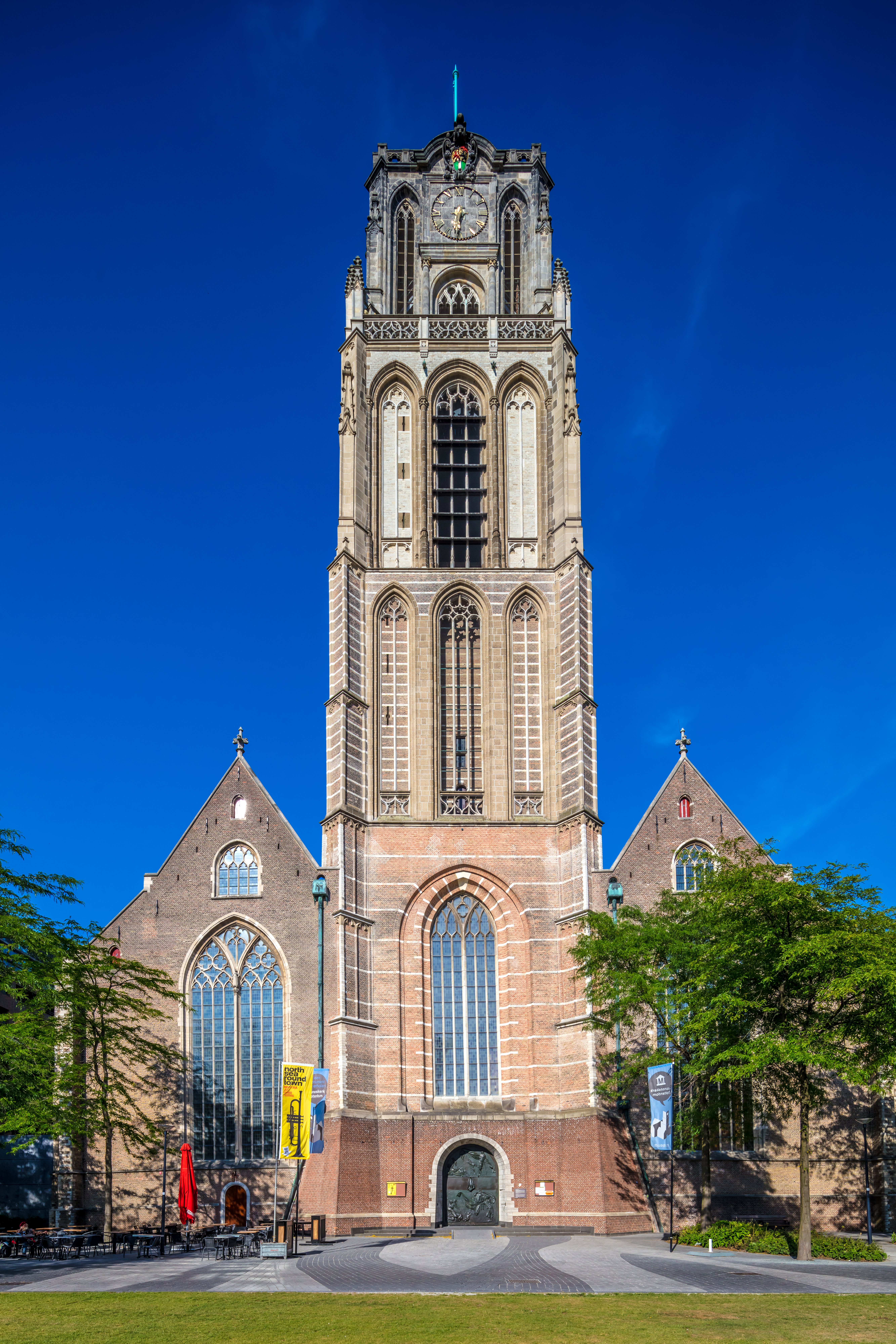 St. Lawrence Church, Rotterdam (07/2018) - Human picture: (1 body / 1 lens / 1 human = 1 picture ) 0% AI ... ;- ) ... Following vandalization (Rotterdam) of my work, final stop of this series on European cities. My work not being respected, I definitively stop my publications in Wikimedia Commons (including definition and quality updates). Final publication in Wikimedia Commons: I also stop my GraphyArchyPocket series (before vandalization ...). Final publication in Wikimedia Commons